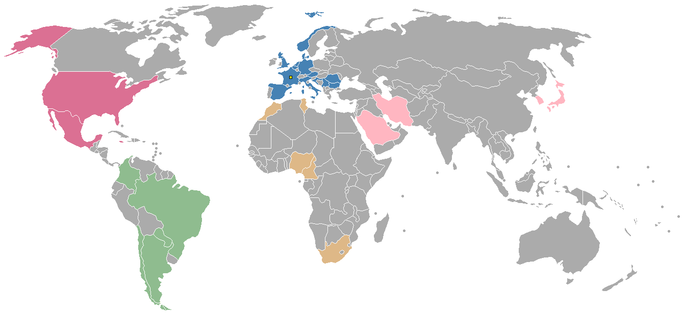 1998 FIFA world cup, Qualifying countries